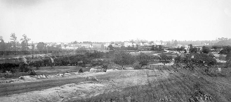 Accession Number: 1979:0022:0042 Maker: Unidentified Title: View of Iuka, Mississippi, from near the Brinkley House Date: ca. 1865 Medium: albumen print Dimensions: 26.0 x 33.7 cm. George Eastman House Collection · ·